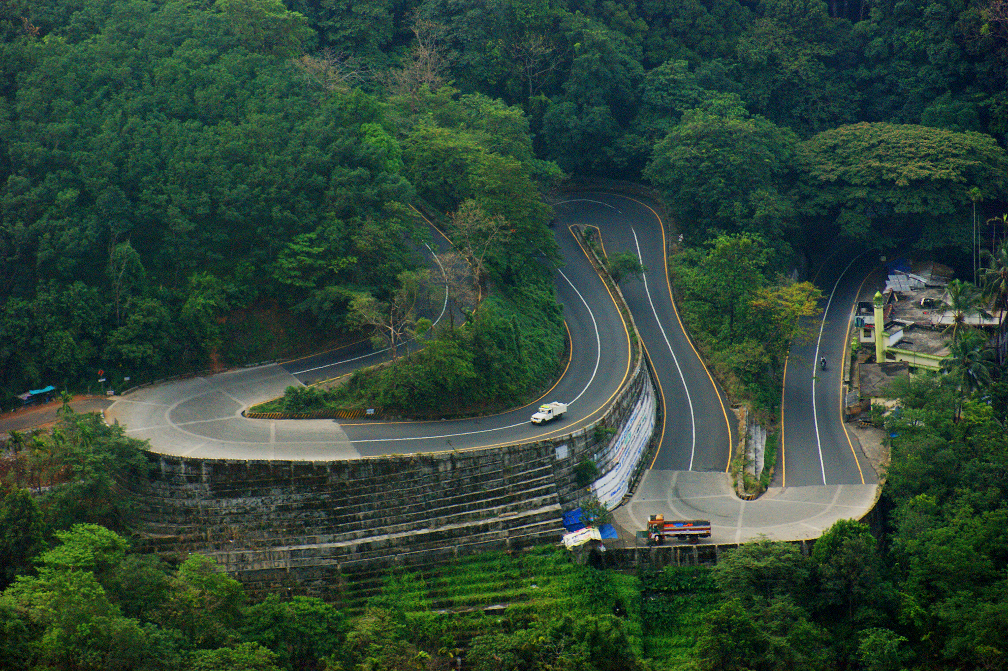 Hairpin curves at thamarasseri, Wayanad Kerala.